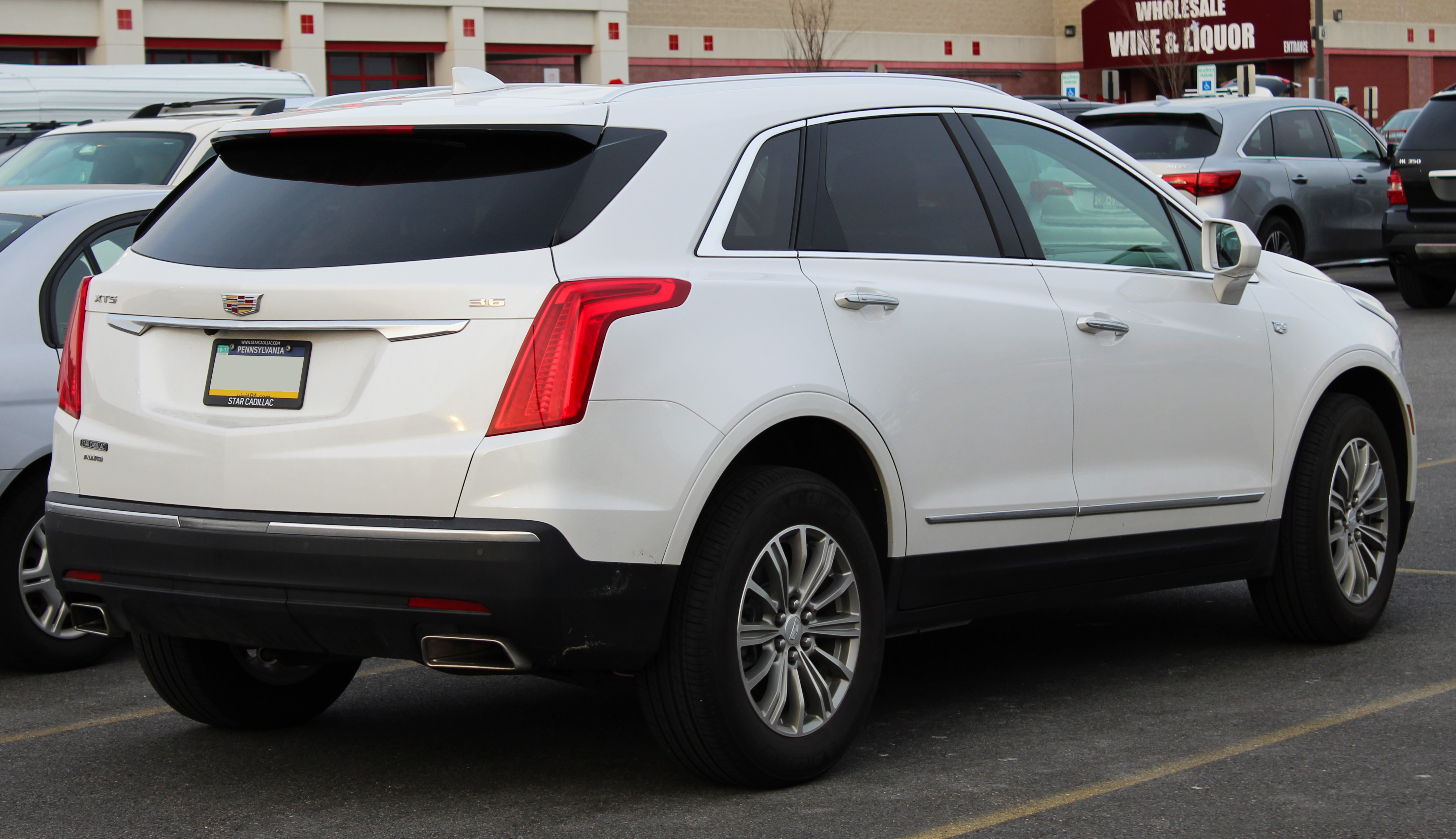 A 2019 Cadillac XT5 Luxury photographed in College Point, Queens, New York, USA